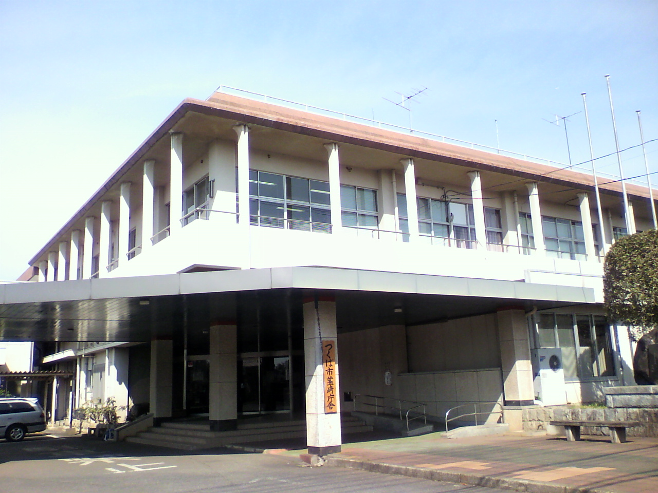 This is a building of Tsukuba city hall Kukizaki branch (Japan).